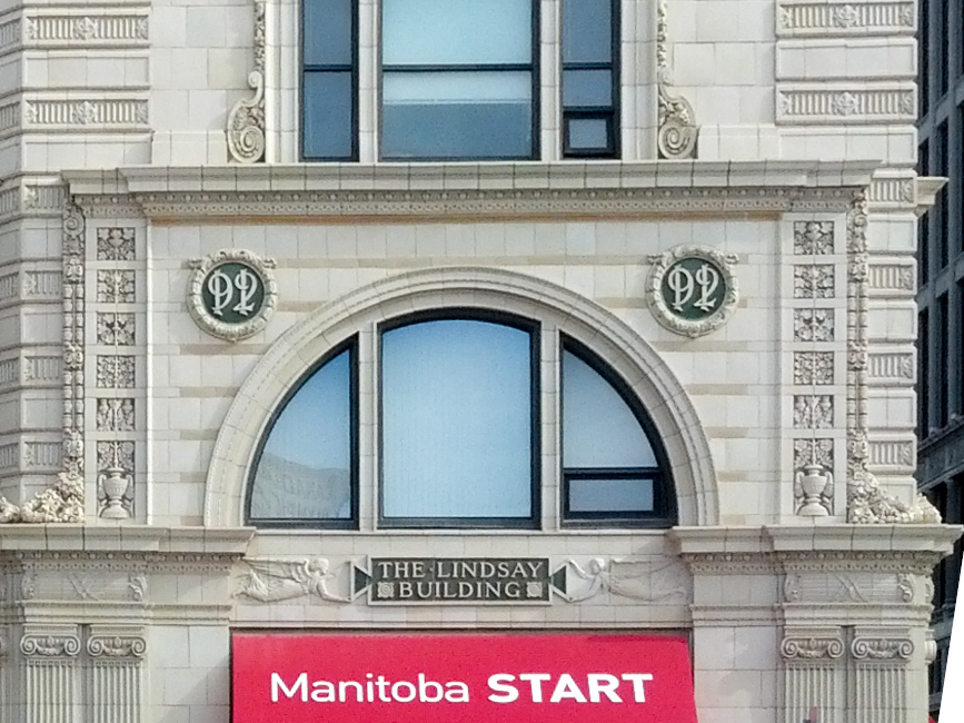 Exterior details of Lindsay Building (Winnipeg, Manitoba), showing the plaques and angels adorning the second floor windows.